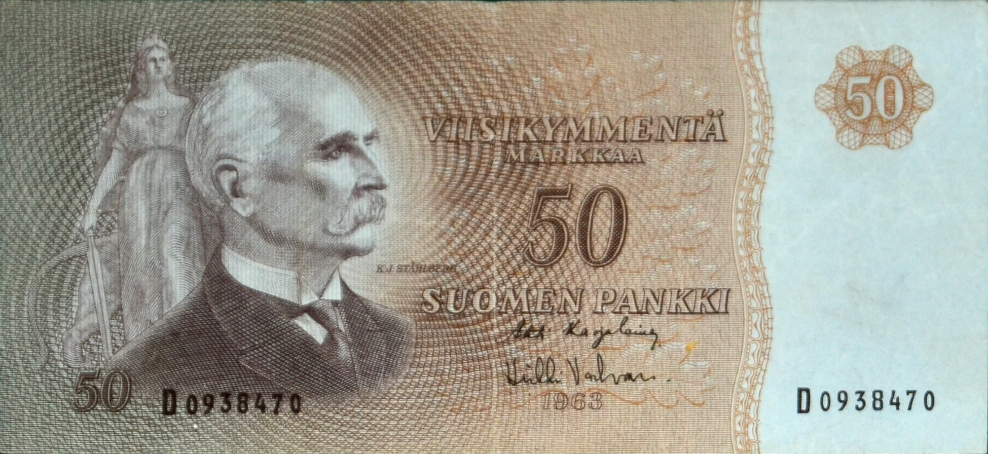 A finnish 50 mark banknote